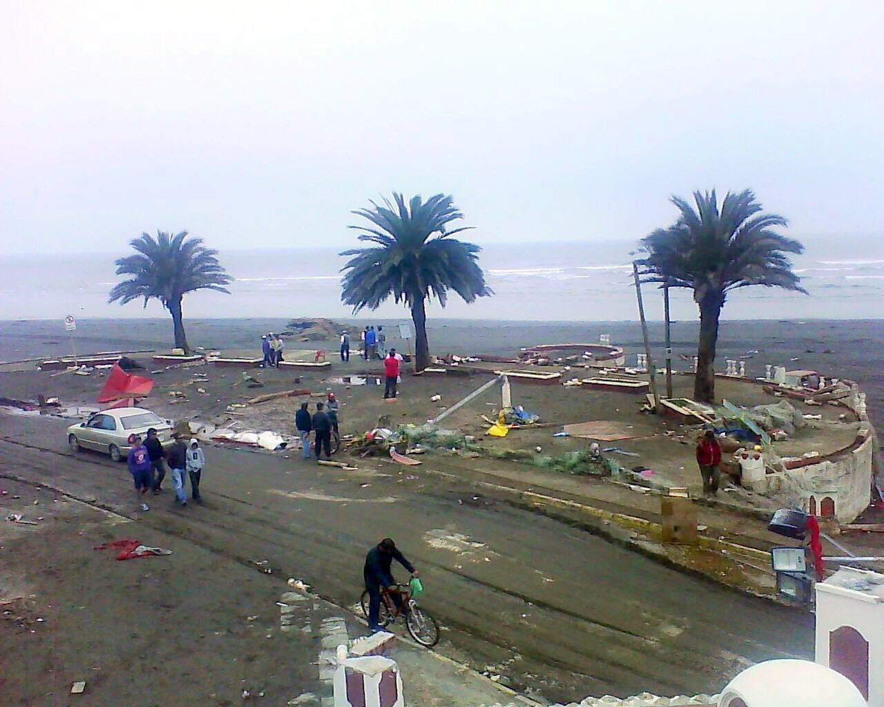 The destroyed Agustín Ross Balcony after the 2010 Chilean Earthquake.